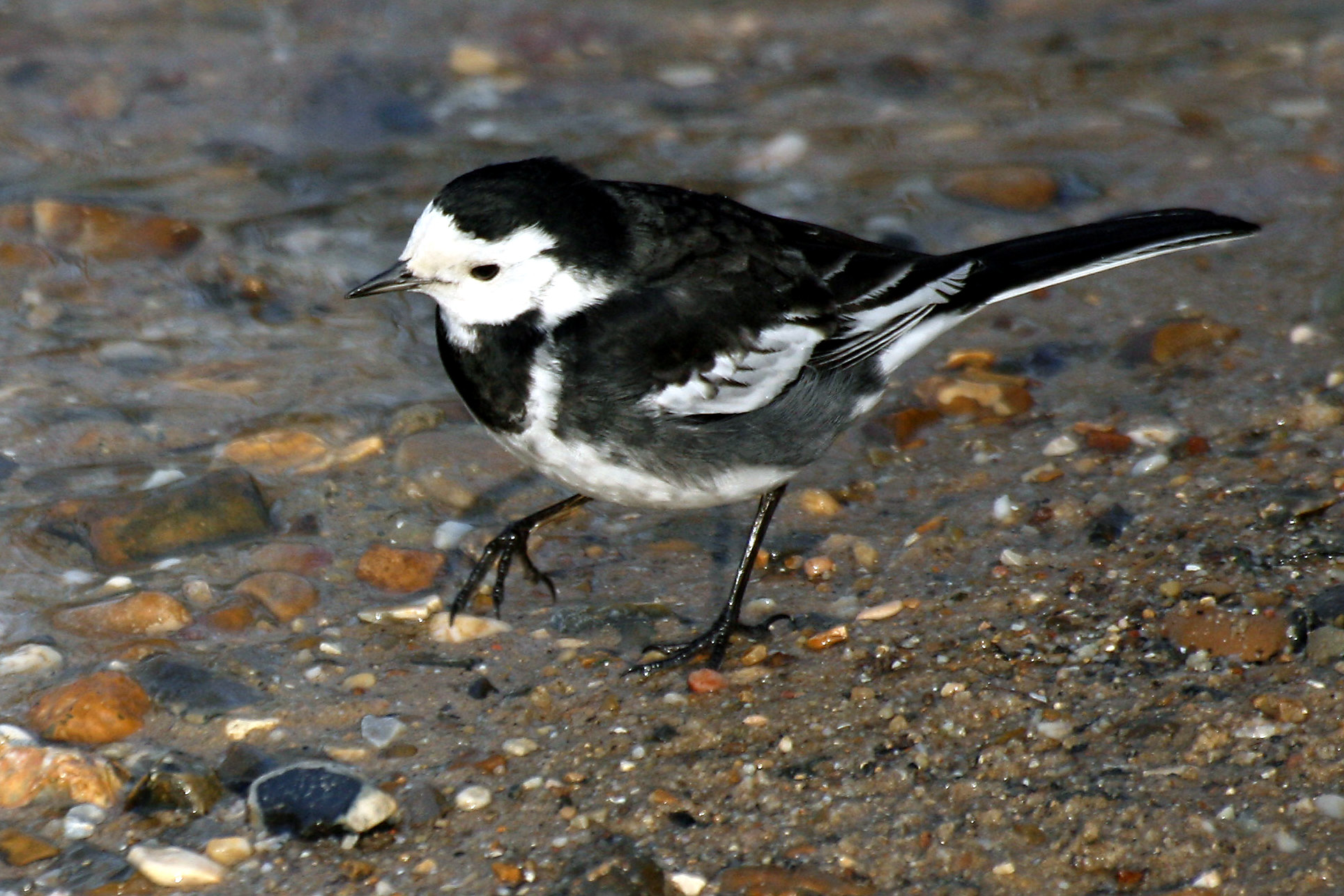 Pied Wagtail (Motacilla alba yarrellii) Dedham, Essex, England - Monday February 11th 2008.